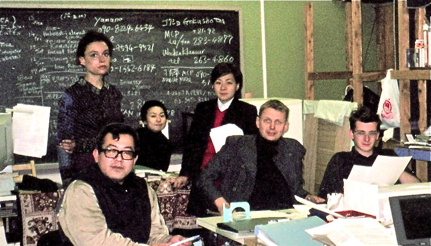 Group Photo, WochenKlausur